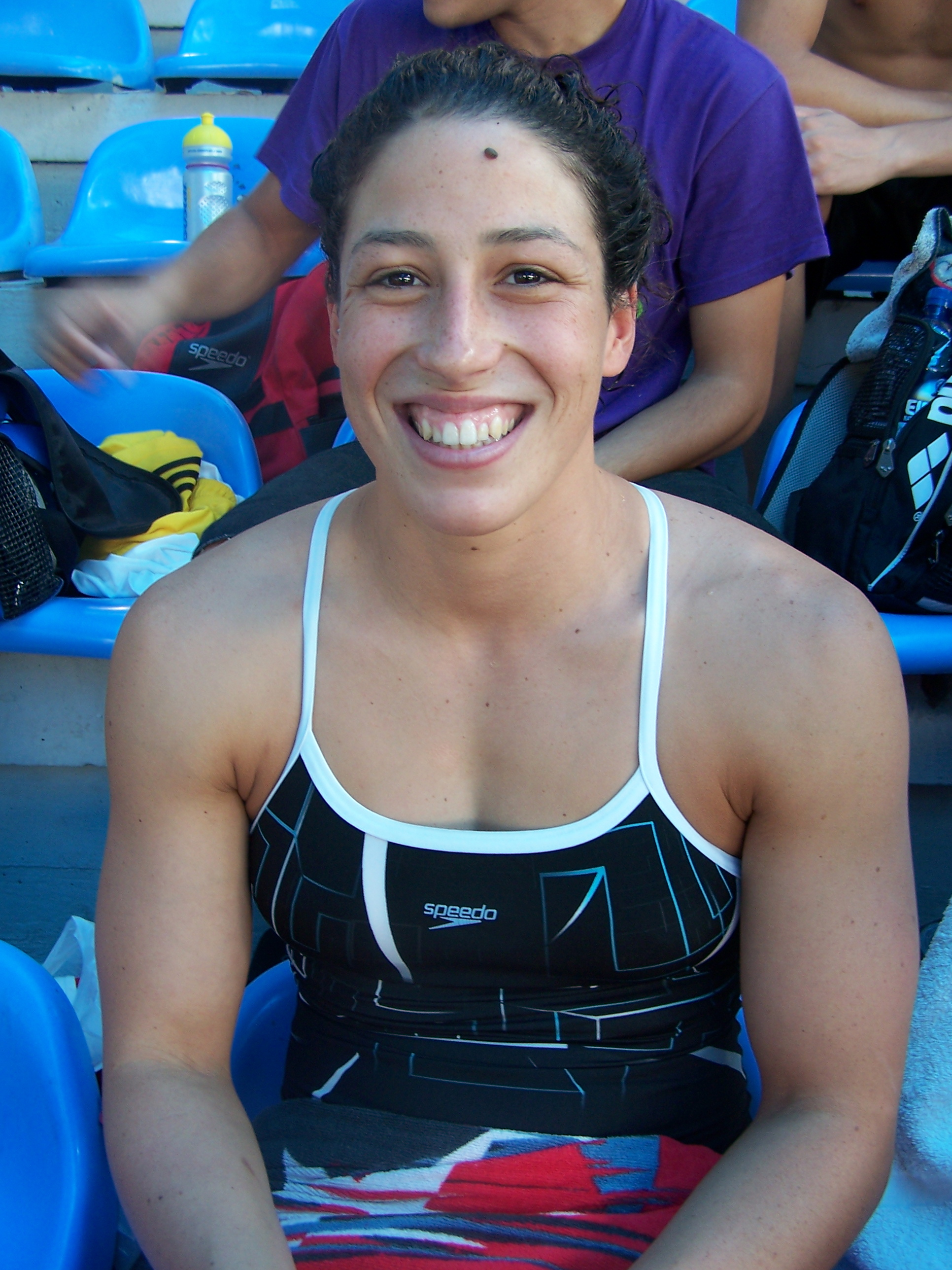 Amit Ivry in the Israelian Championships in swimming 2010